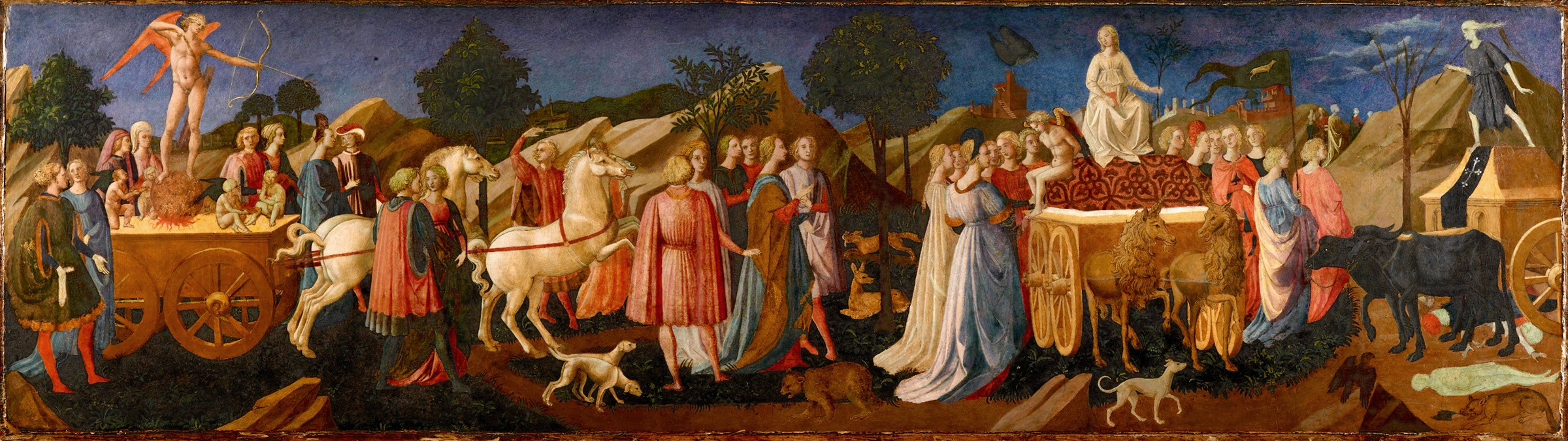 Cassone painting of Petrarch's Triumphs: Love, Chastity, and Death.